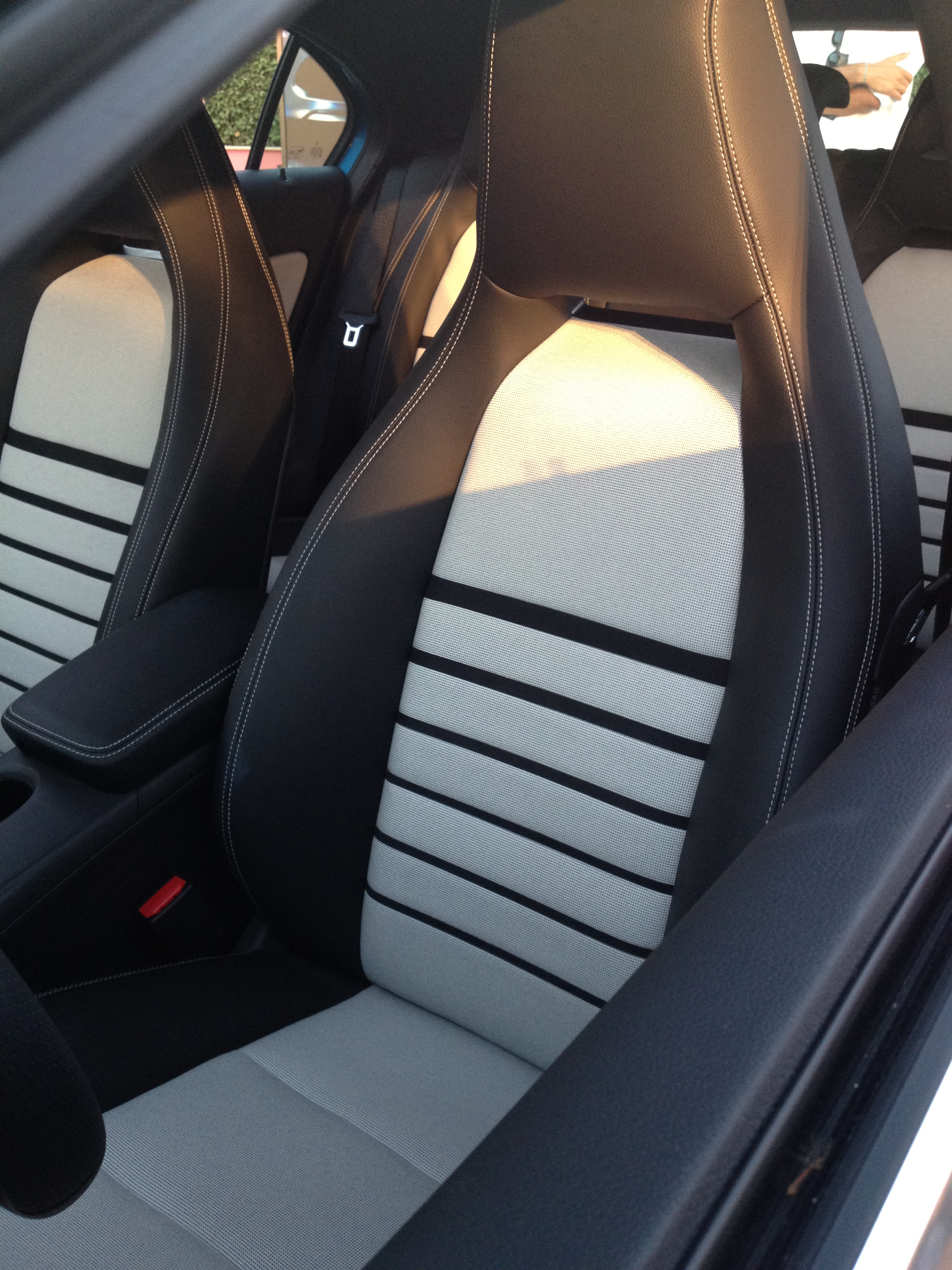 Mercedes A-Class 2012.